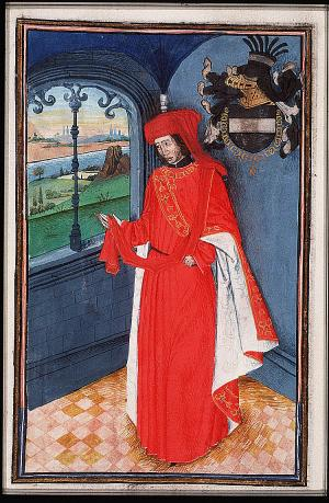 Statuts, Ordonnances et Armorial de l'Ordre de la Toison d'Or (Statutes, Ordonnances and armorial of the Order of the Golden Fleece) Place of origin, date: Southern Netherlands; 1473. Added sections: Southern Netherlands; 1478 or shortly after and 1491 or shortly after Material: Vellum, ff. 86, 249x187 (167x106) mm, 23 lines, littera cursiva (lettre bourguignonne). French. Binding: 18th-century brown leather Decoration: 1 full-page miniature (170x115 mm) with border decoration; 92 miniatures (185/155x120/100 mm); 1 historiated initial (80x90 mm) with border decoration; decorated initials with border decoration (ff., Added section: miniatures ; 4 drawings for miniatures (not finished) Provenance: Presented in 1473 by Gilles Gobet, King of Arms of the Order of the Golden Fleece, to Charles the Bold, Duke of Burgundy and the other Knights during the Chapter of the Order held at Valenciennes; Treasure of the Golden Fleece, Brussls; taken away by the Treasurer C.-F. Humyn (d. 1735) or his daughter C.Ch. de Corte; by legacy to her daughter M.-L. de Corte, wife of Ph.-E. de Poederlé; purchased in 1781 at the Poederlé sale by G.-J- Gérard of Brussels; acquired in 1832 as part of the Gérard collection (no. A 27)